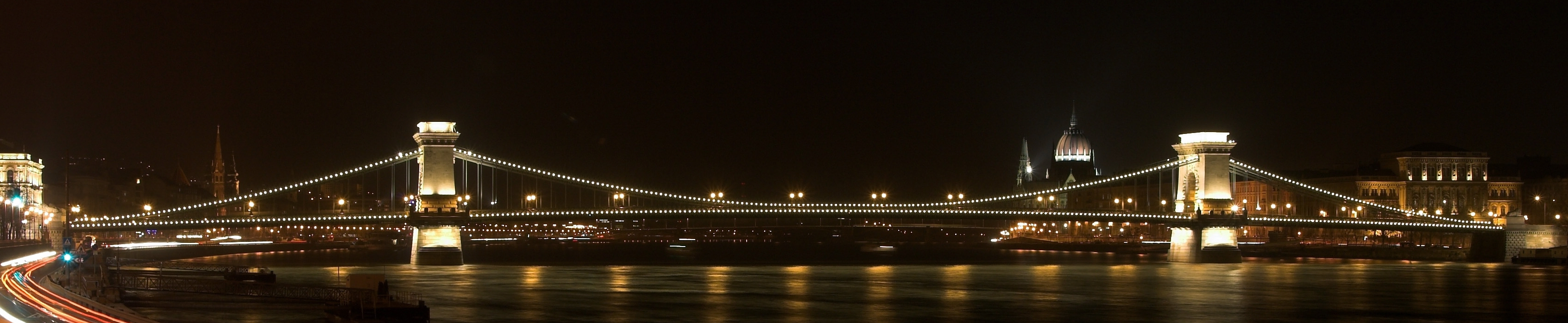 Chain Bridge by night in Budapest (version 4), Academy at right side and the Hungarian Parliament.